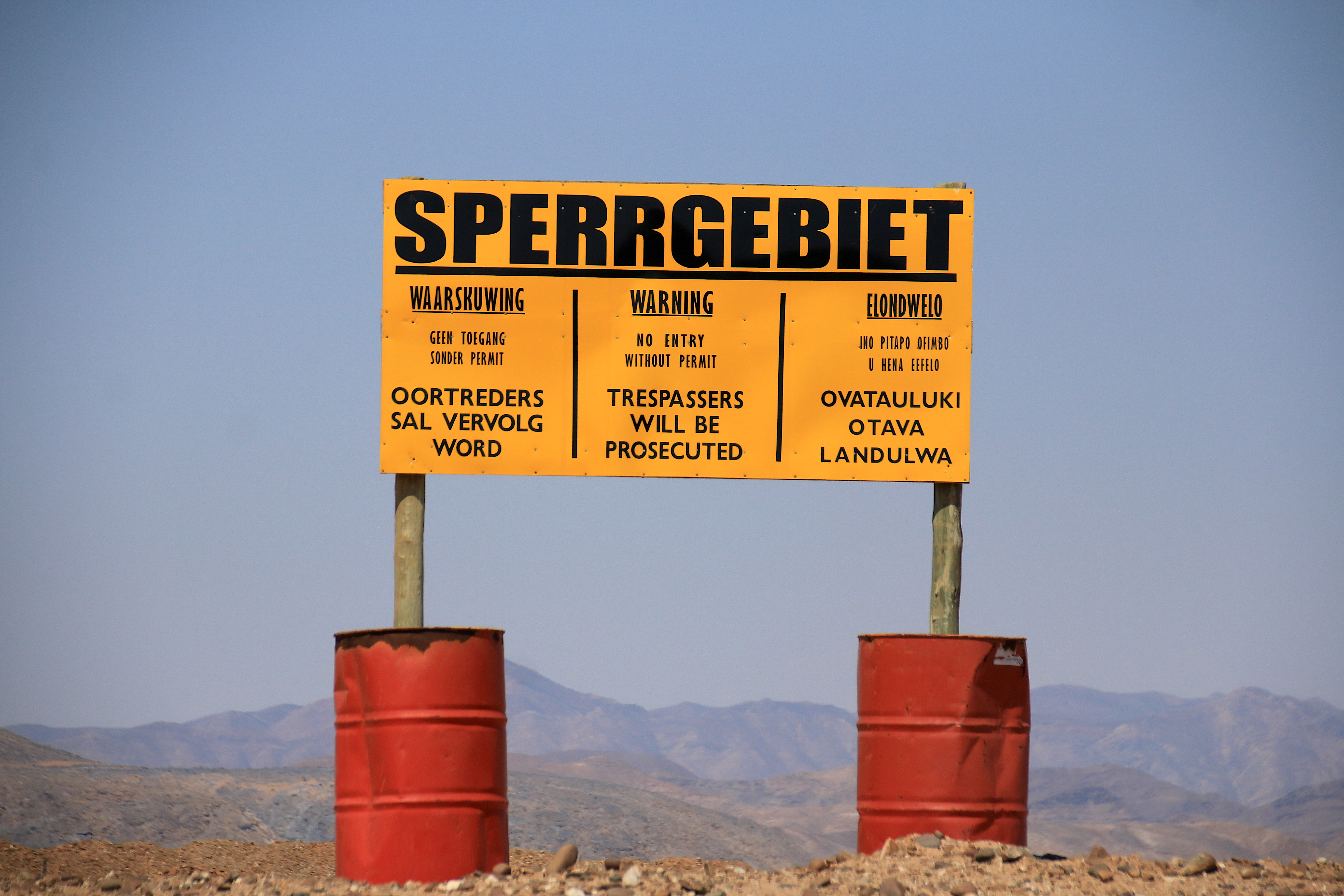 Sperrgebiet sign (2018)